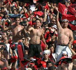 Hinchada del Club Atlético Newell's Old Boys